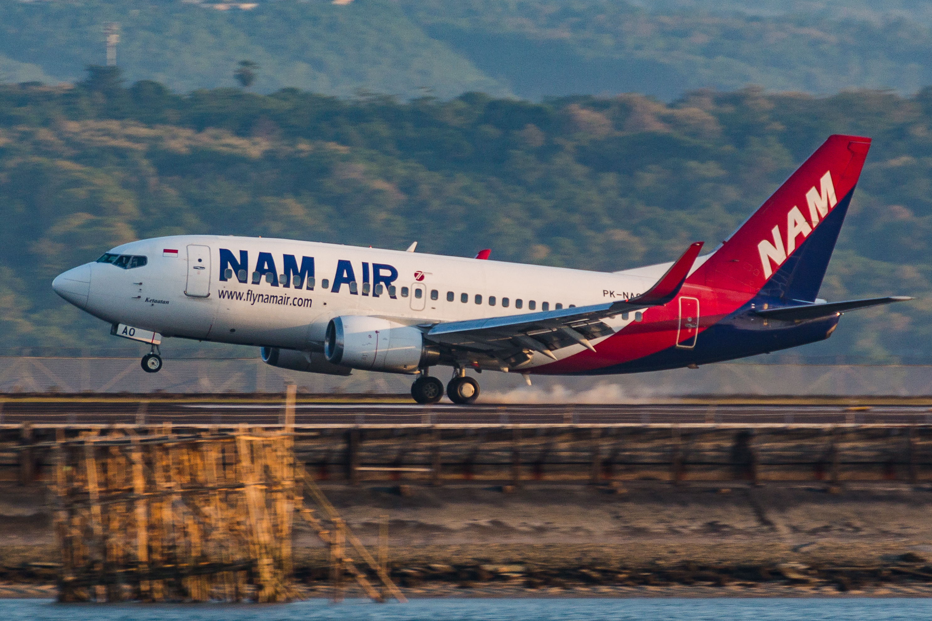 Nam Air Boeing 737-500 Touching down at Bali Airport